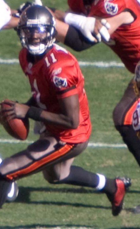 Josh Johnson prepares to pass in Tampa Bay Bucaneers game against Washington Redskins